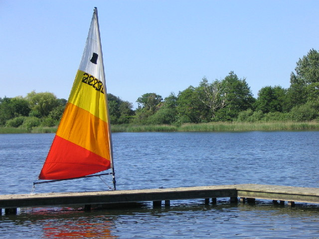 Rollesby Broad from the Sailing Club jetty. Rollesby Broad is one of the Trinity Broads of Norfolk.